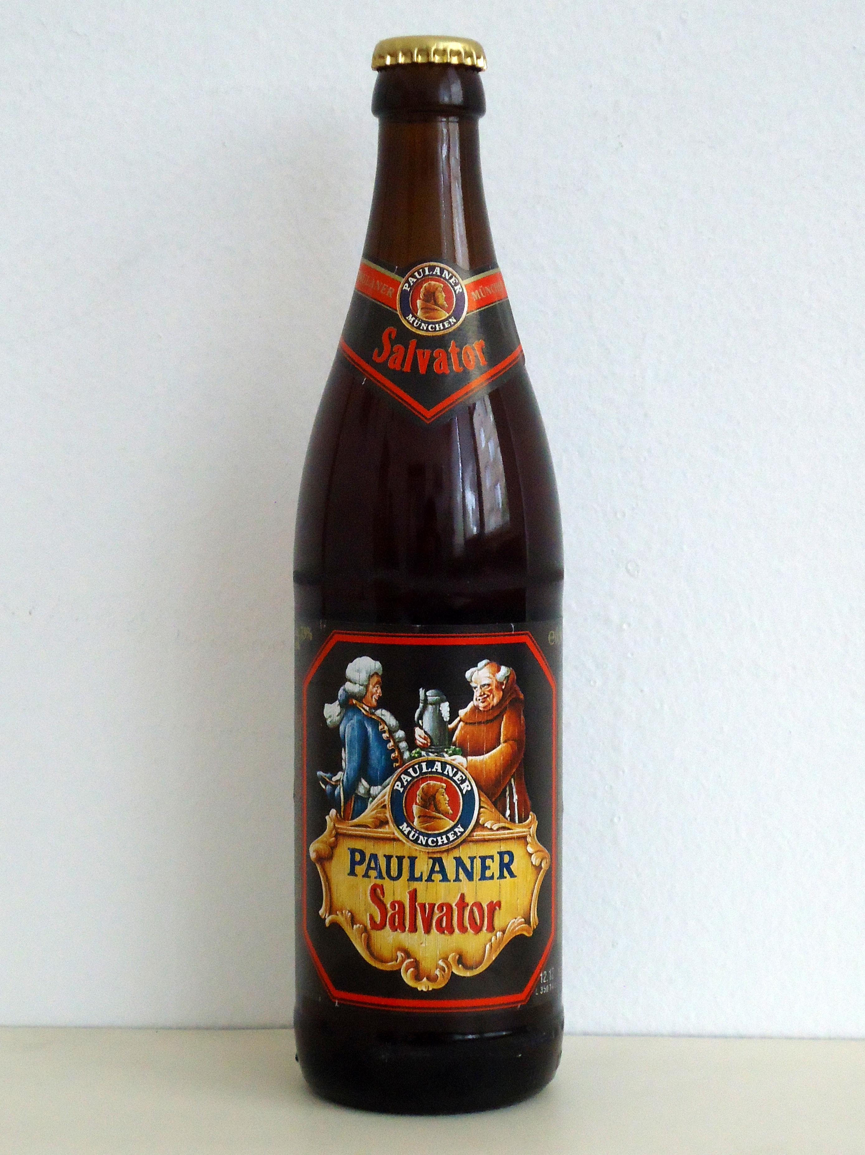 Paulaner Salvator